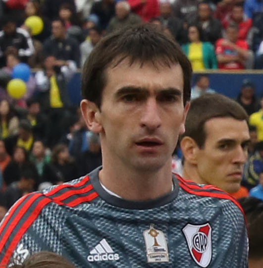 INDEPENDIENTE 5 MAV